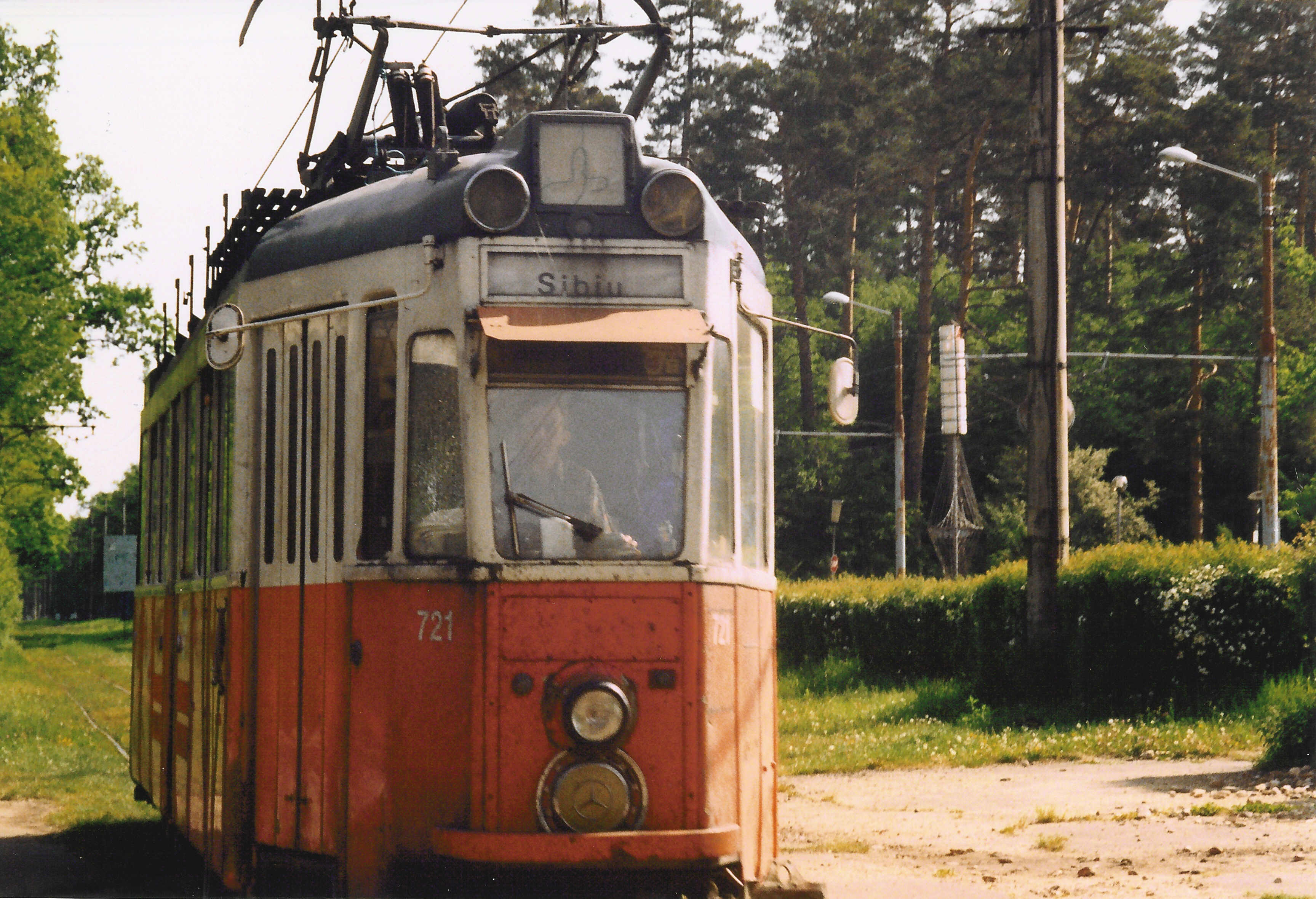 Sibiu-Răşinari tram, Sibiu County, Romania. The tram line runs through the countryside and has a stop at the Museum of Traditional Folk Civilization. The current trams (at least as of 2002) originally came from Geneva and still have interior signage in French.